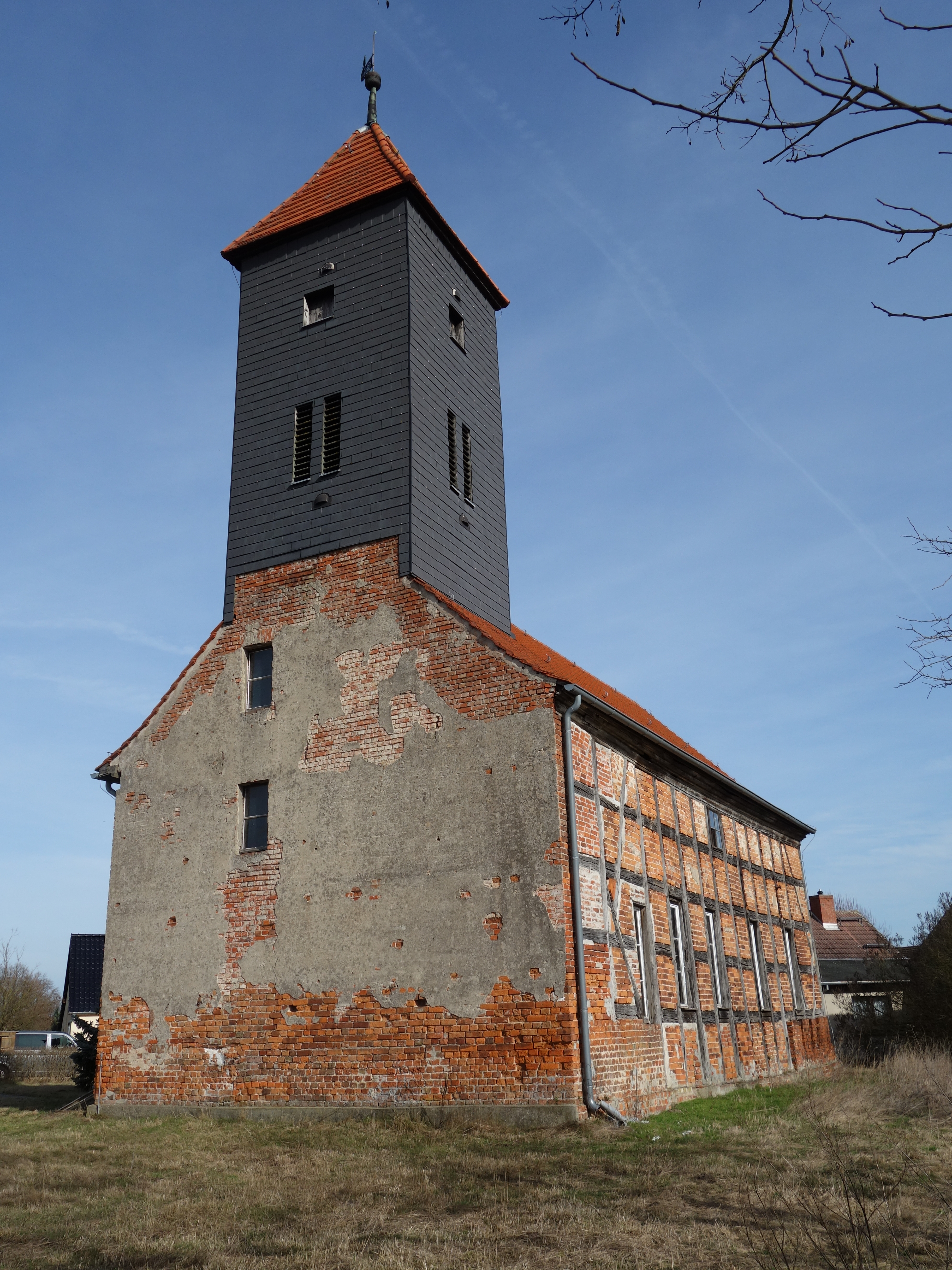 South-western view of church in Knoblauch, Milower Land municipality, Havelland district, Brandenburg state, Germany.